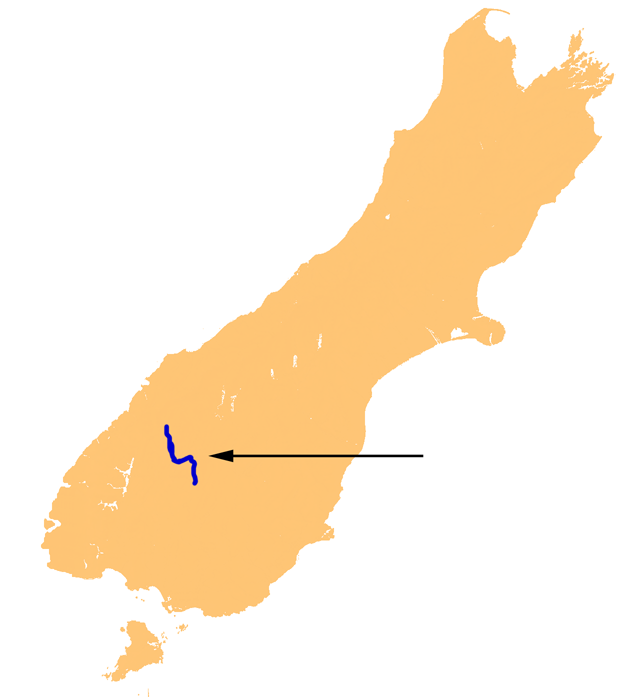 Location map of Lake Wakatipu, Queenstown Lakes District, Otago, New Zealand